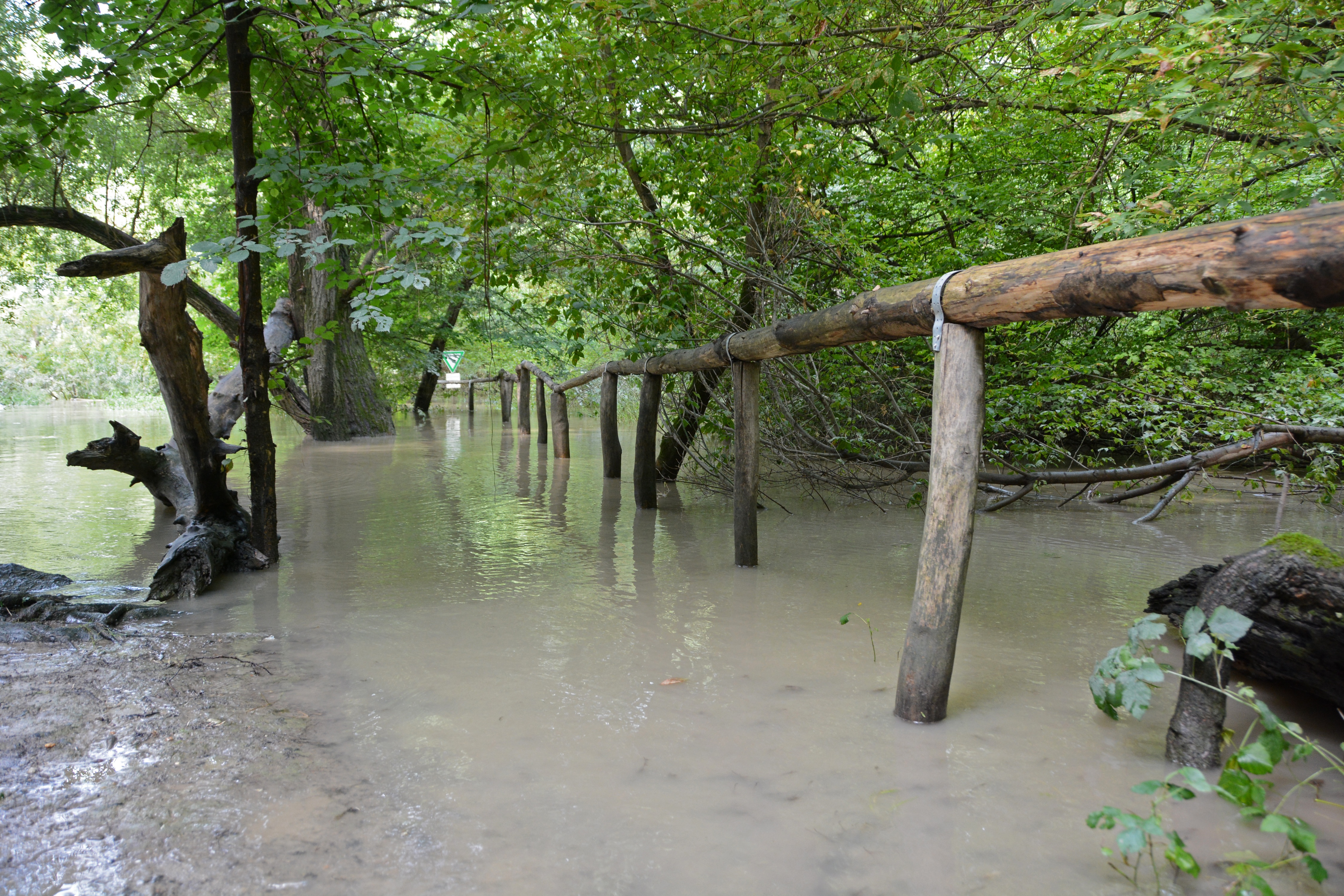 Nature reserve "Bei der Silberpappel", Mannheim (Germany), partially flooded at high Rhine water level